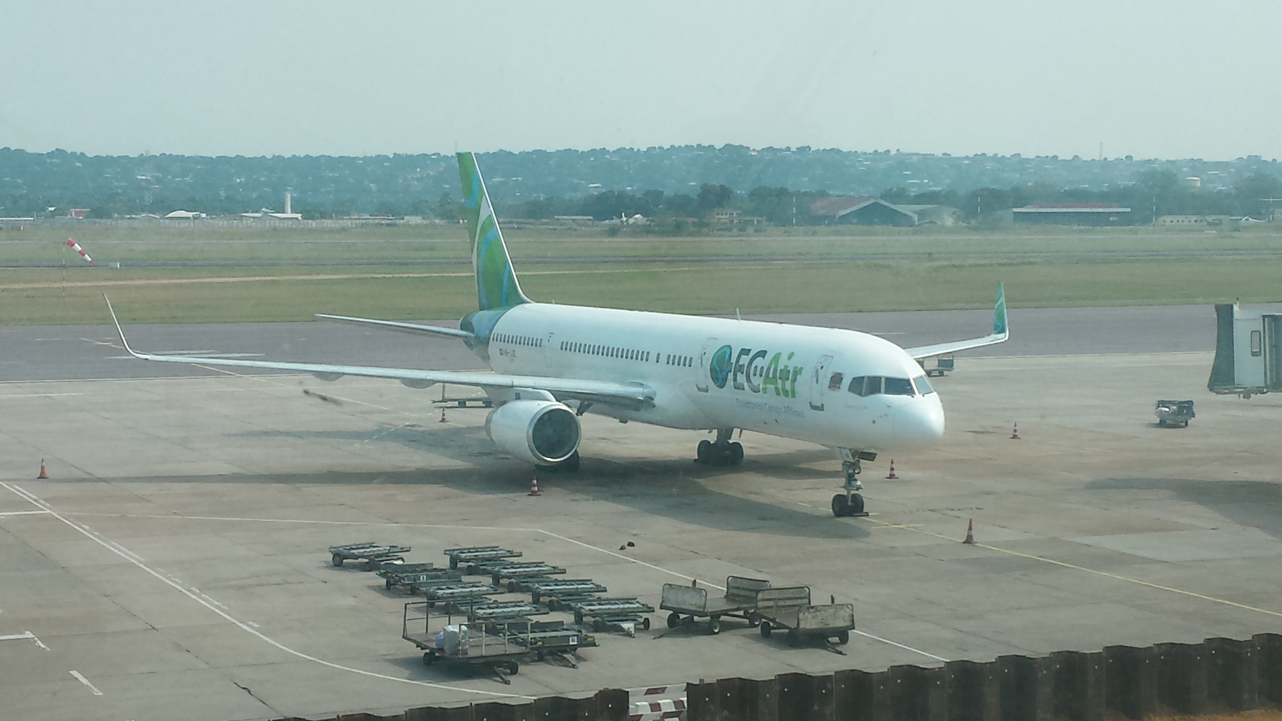 MSN 27219 HB-JJE in Equatorial Congo Airlines Colours